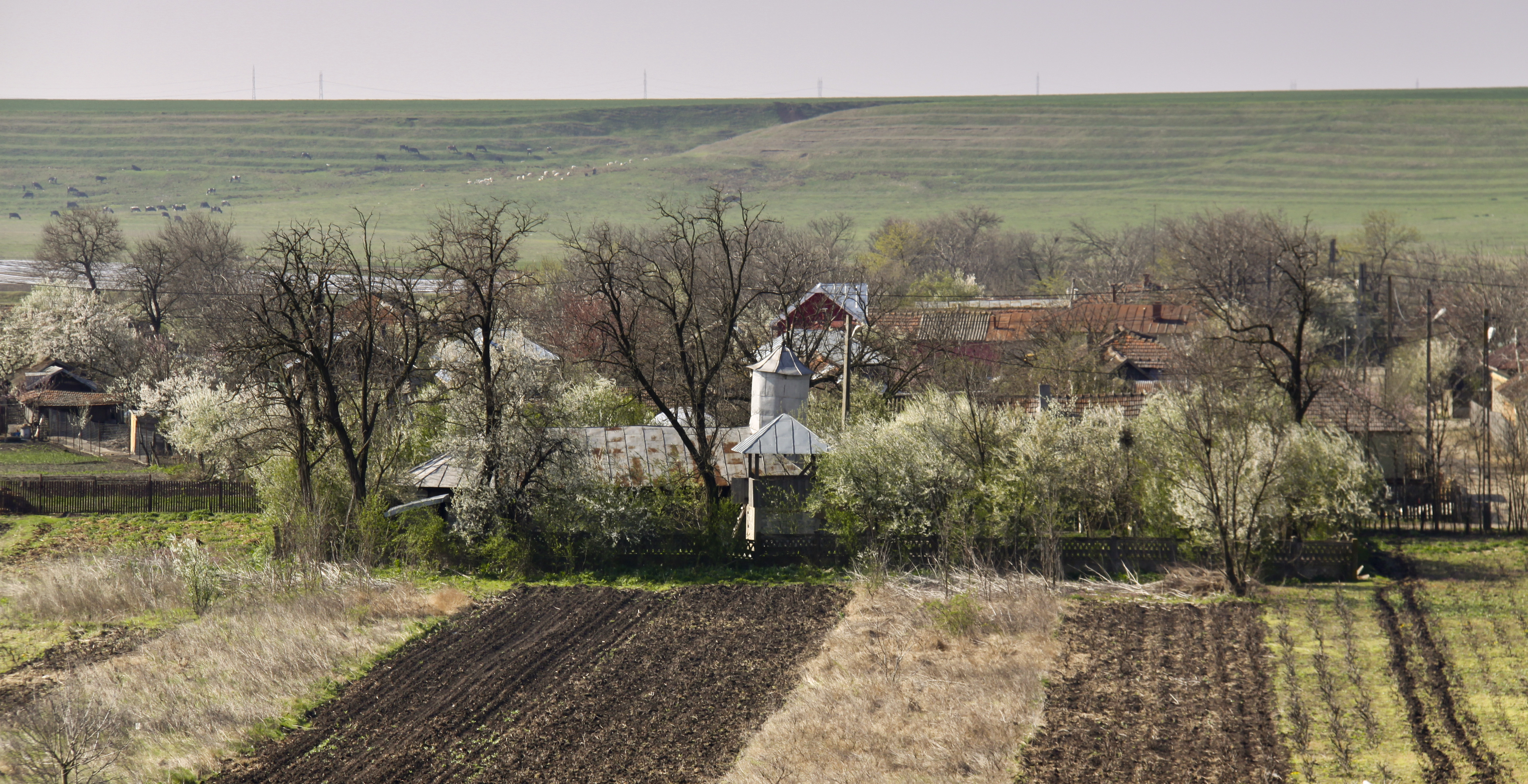 Teleormanu, Teleorman county, Romania: the wooden church.